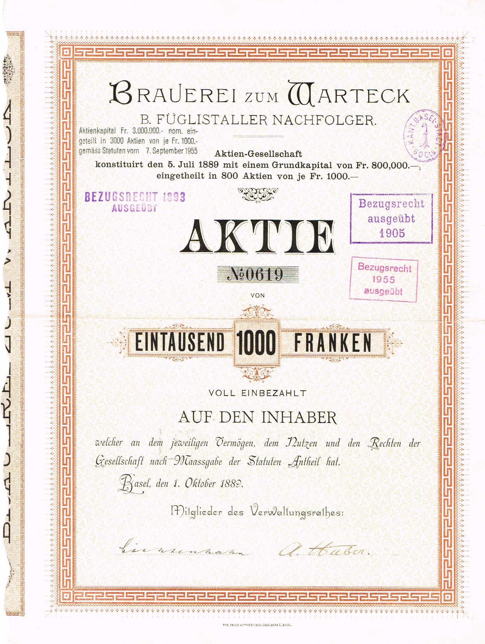 Share of the Brauerei zum Warteck, issued 1. October 1889